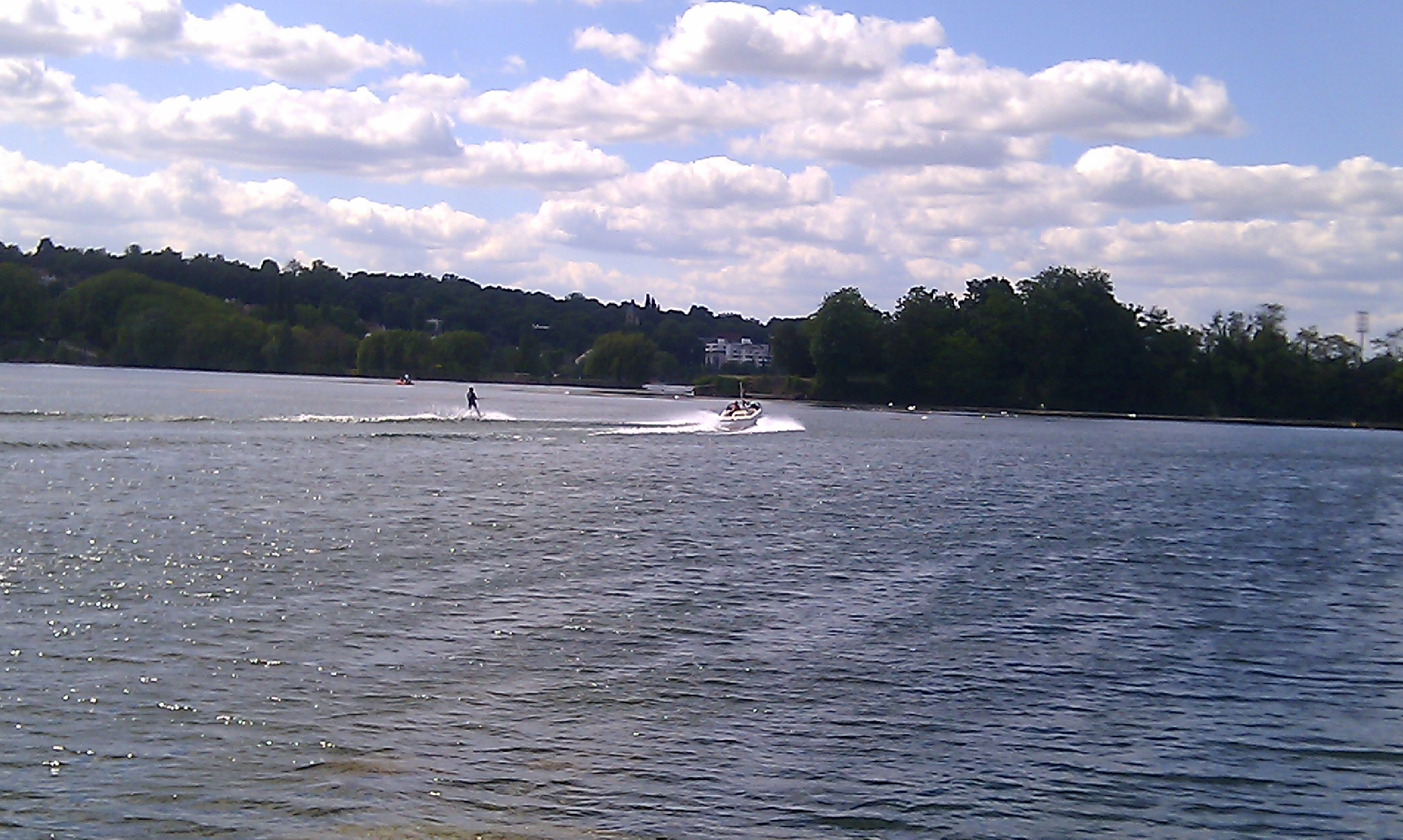 Water skiing on one of the lakes of Grigny.